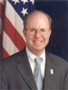 Official portrait of James L. Connaughton. (Image For James L. Connaughton